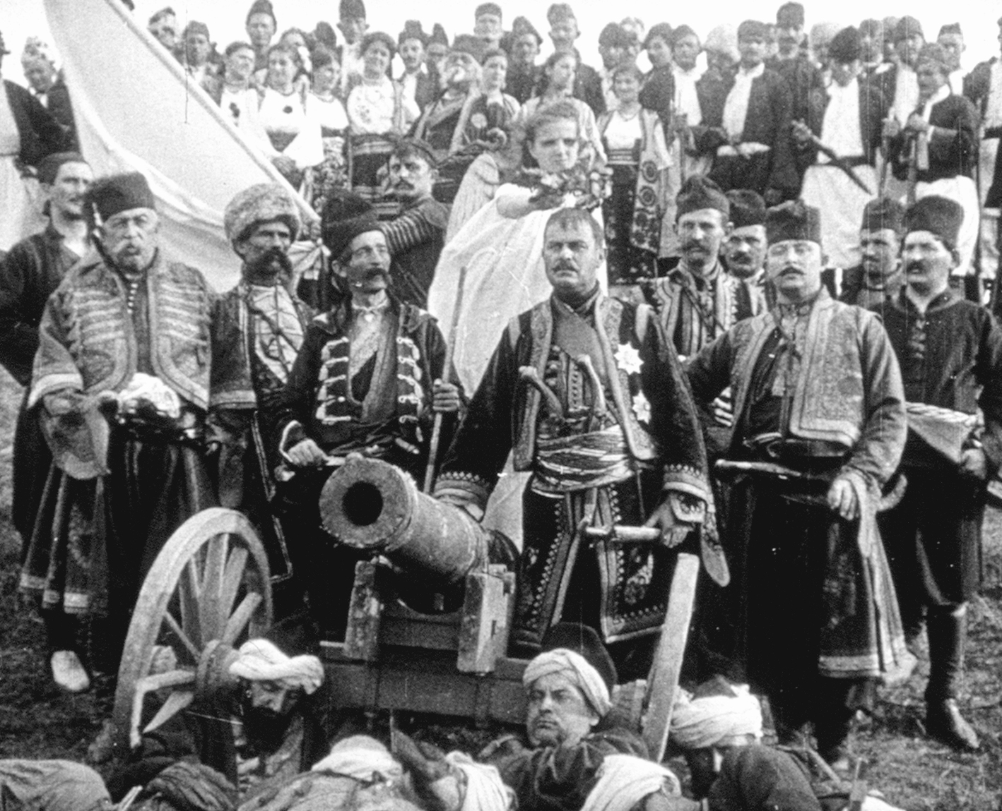 A still from the 1911 film Karađorđe, the first feature-length film from Serbia and the Balkans.